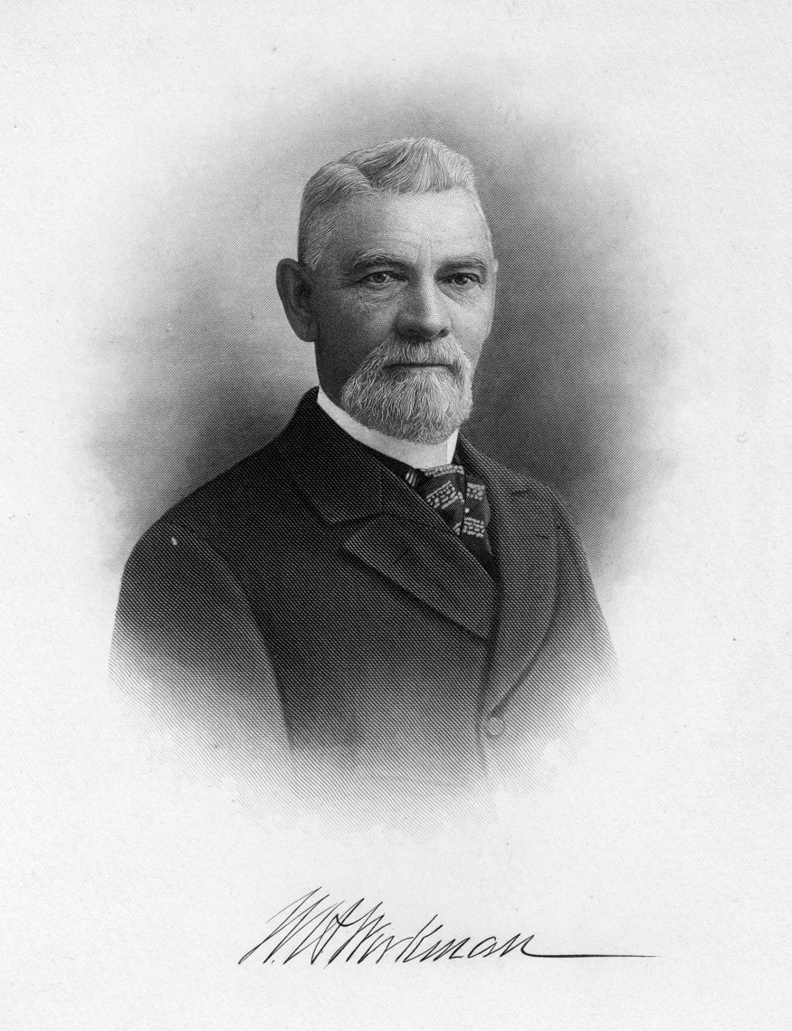 William H. Workman